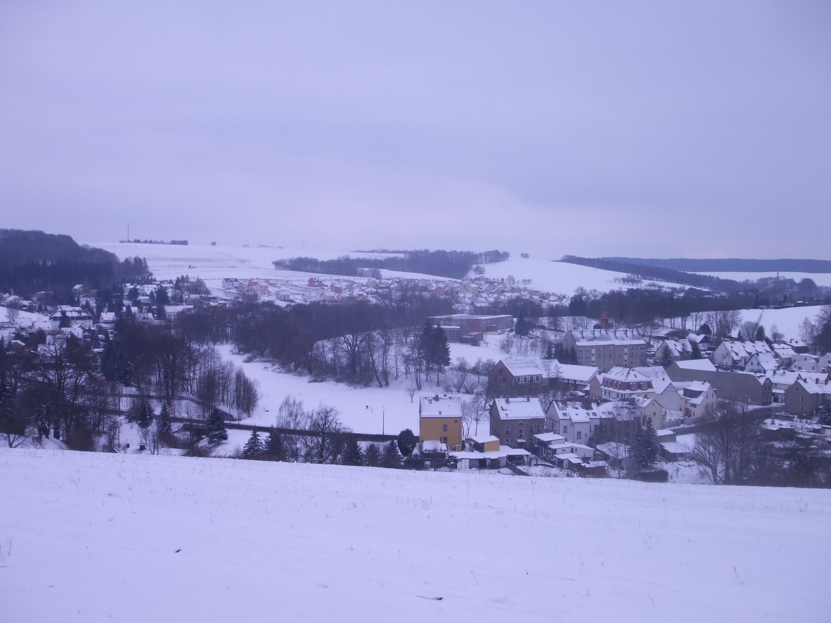 View from Ernseer Berg above Scheubengrobsdorf, Gera, Germany, in February 2010